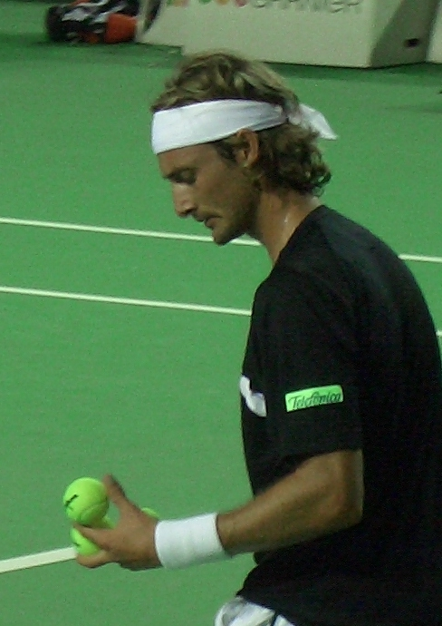 Juan Carlos Ferrero at the 2006 Australian Open.